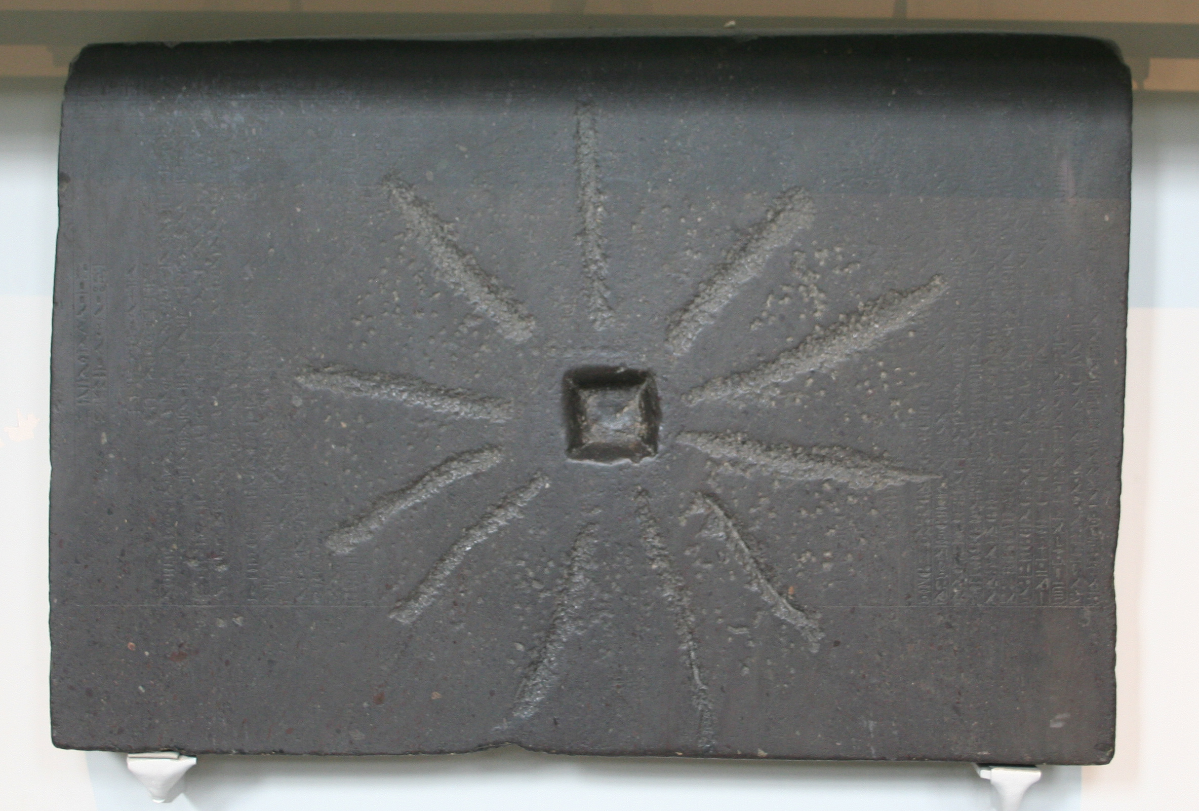 British Museum, London